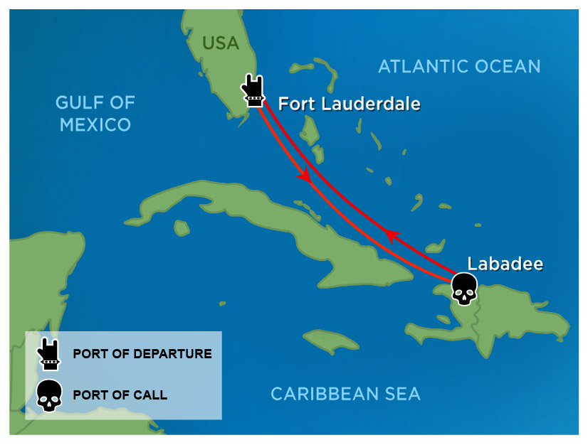 Route of 70000TONS OF METAL 2017